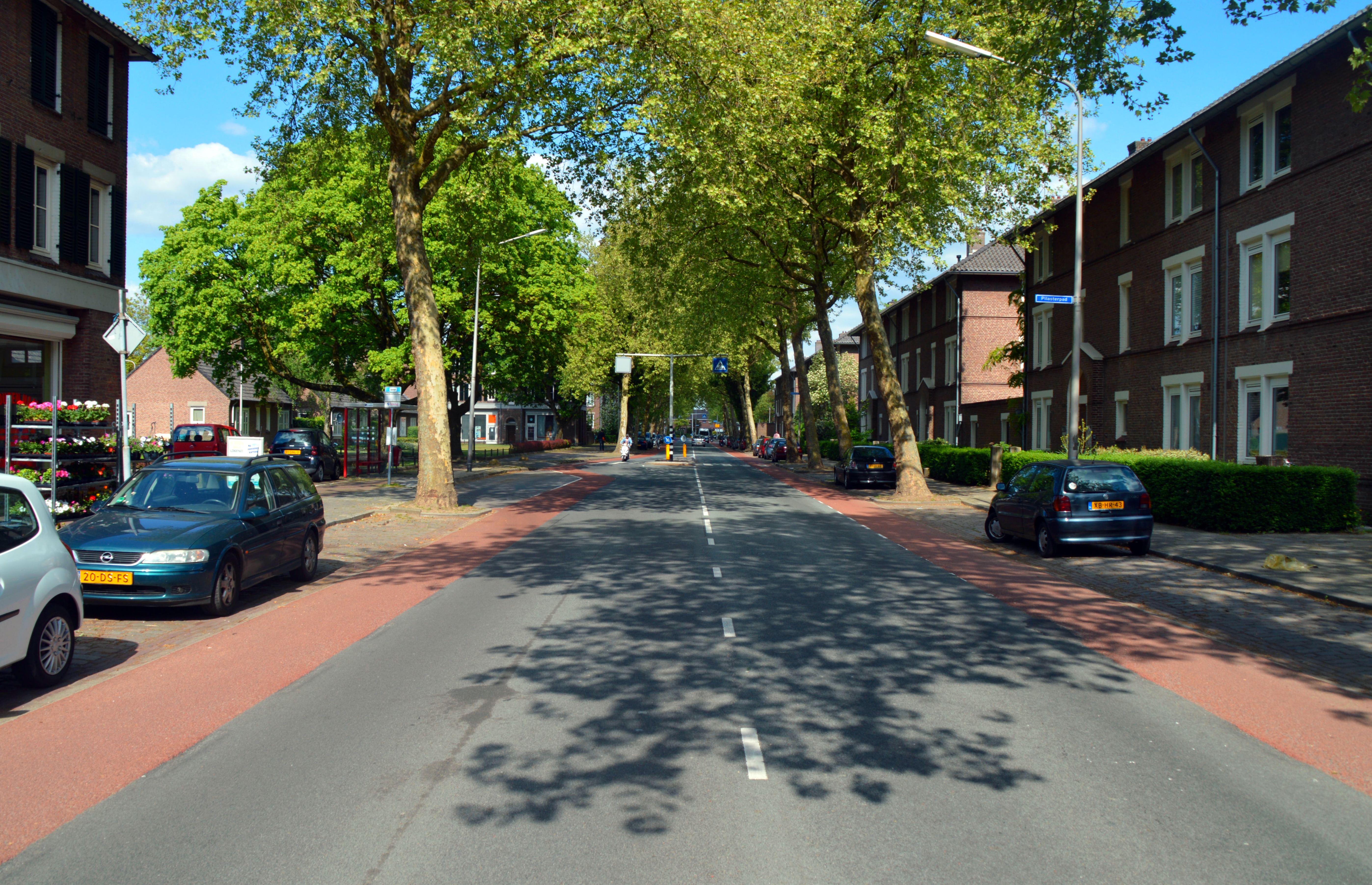 Paul Krugerstraat, Hees Heseveld Nijmegen